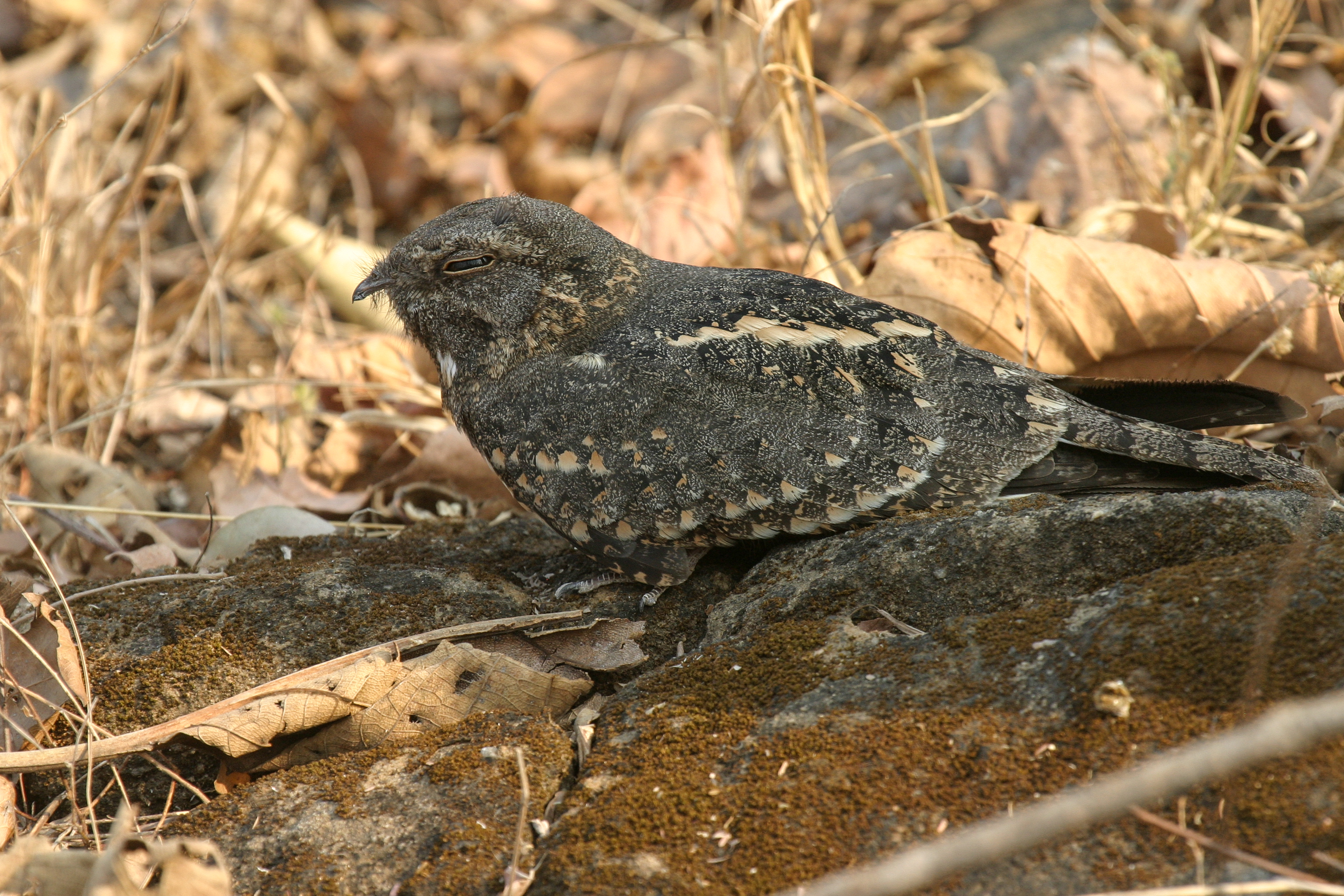 Birds of India